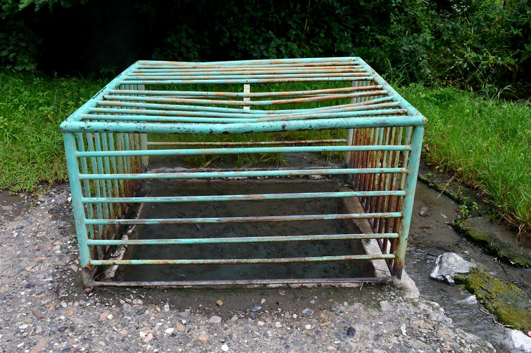 Raska Municipality - Banja Jošanička